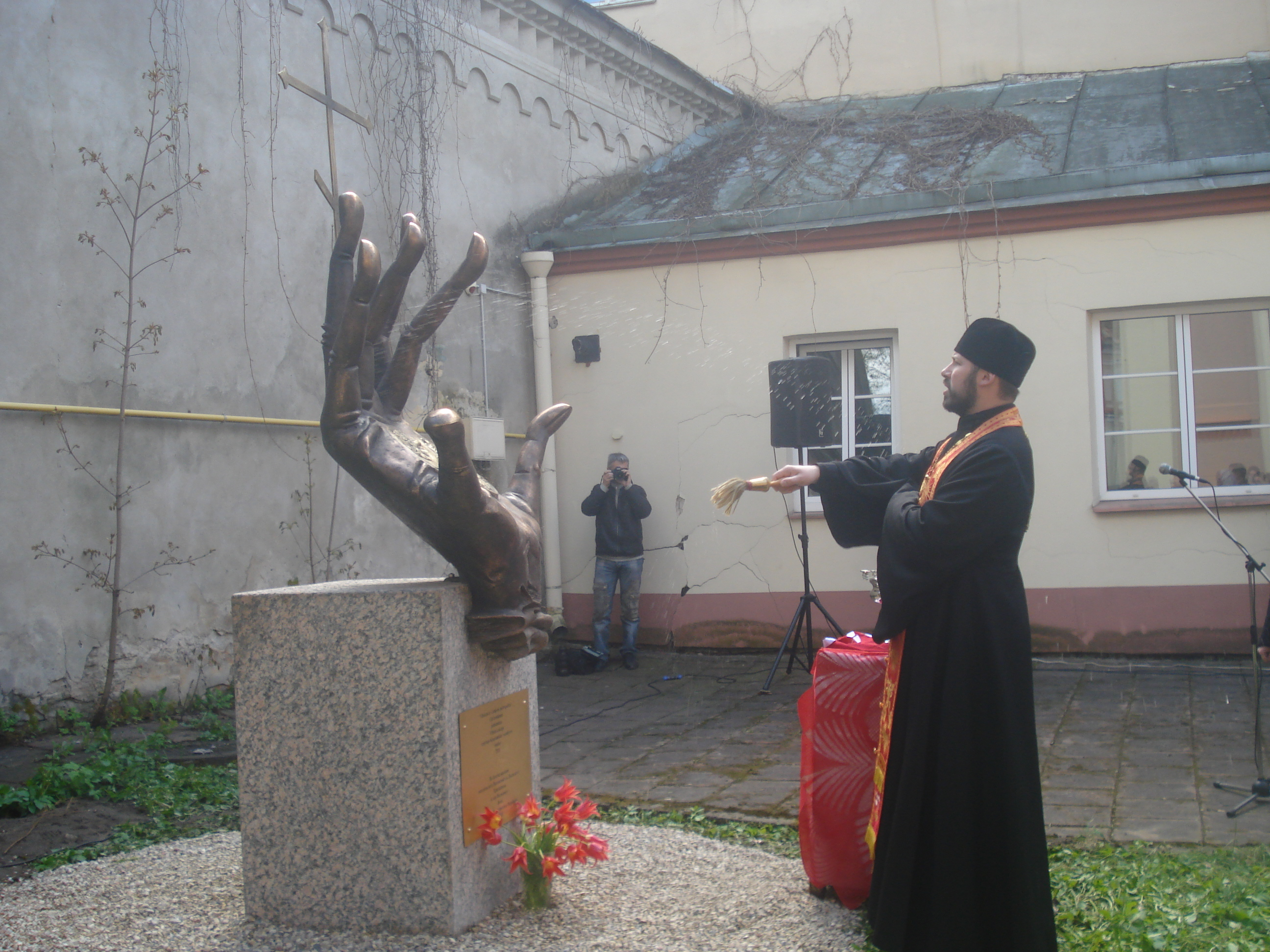 Consecration of the monument to the great Russian poet Alexander Pushkin and his great grandfather Abram Hannibal in Vilnius